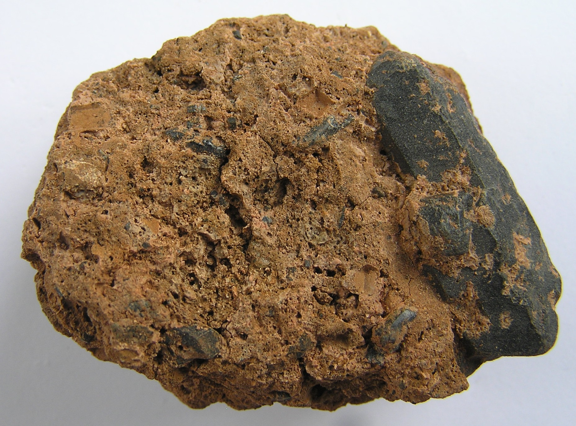 Tuffit